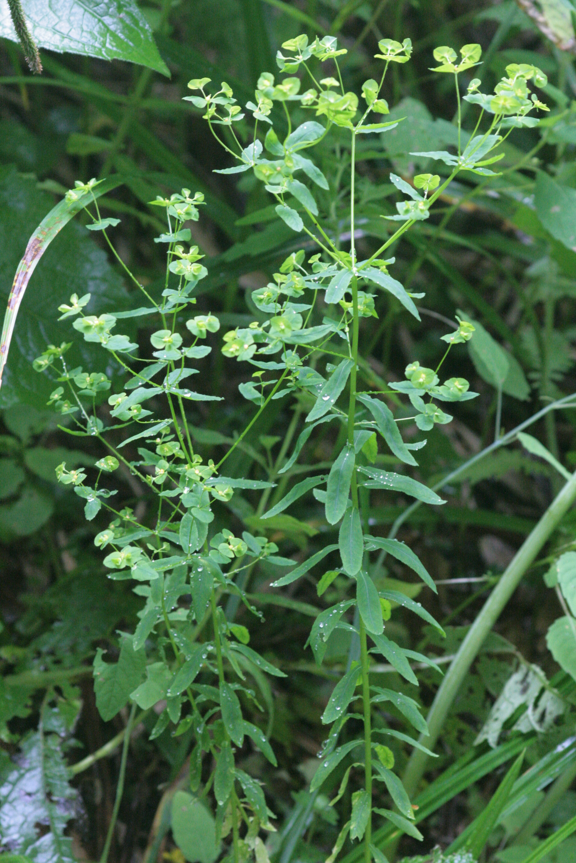 Euphorbia stricta